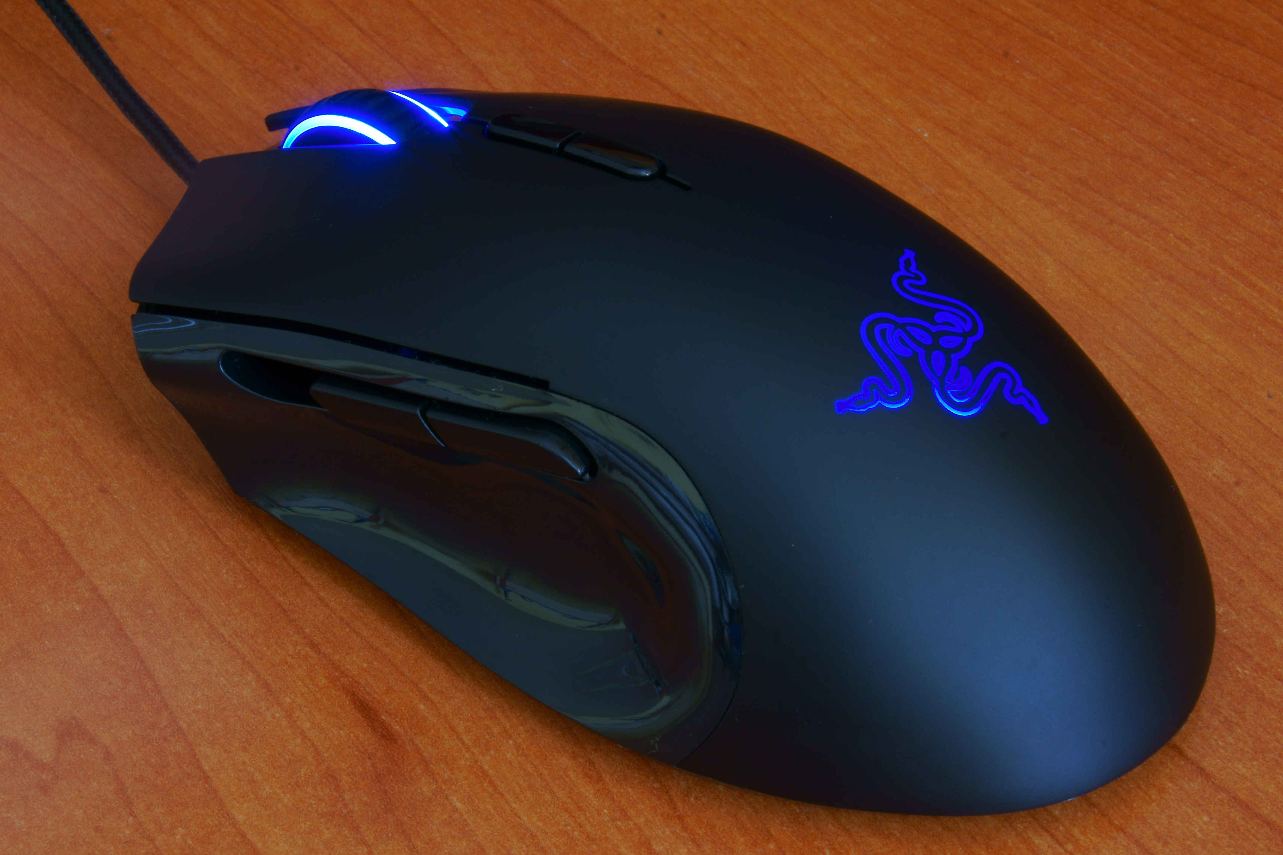 Razer Imperator laser gaming mouse. On this picture it is shown with highlighted scroll and Razer logo.